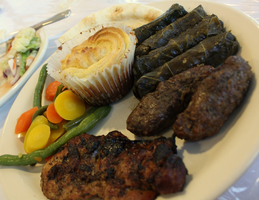 The entree included kofta (a Middle Eastern ground meatball/loaf), stuffed grape leaves, grilled chicken, vegetables and "Queen of Potatoes."